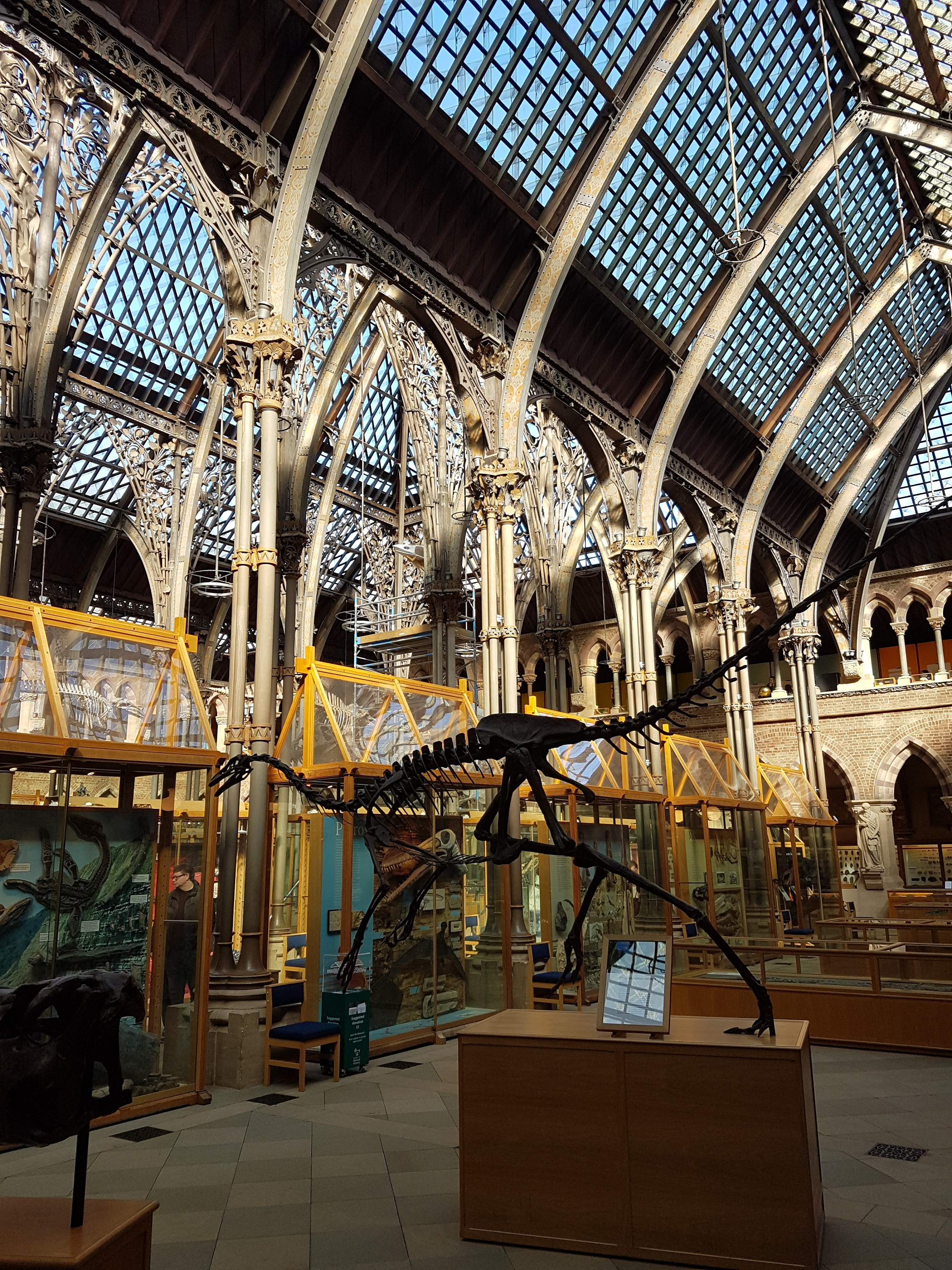 Oxford University Museum of Natural History, interior